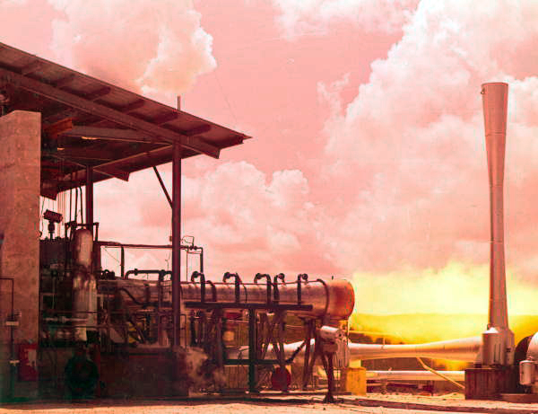 Local call number: RC08584 Title: Testing the XLR-115 hydrogen fueled rocket engine at the Florida Research and Development Center: Apix, Florida Date: 1958 General note: In the late 1950s, the U.S. government created a fictitious town named Apix (Air Products Incorportated, Experimental) to build and test rocket engines powered by liquid hydrogen in order to keep pace with the Soviet Union. Highly classified and requiring a large degree of secrecy, the project was given the code name "Suntan." Land near the testing ground was platted for houses to conceal the true nature of the site and Apix was even given a bogus population to add to its cover as a small fertilizer-producing community. By June 1959, the use of liquid hydrogen was determined to be too costly, the project was abandoned, and Apix dismantled. Physical descrip: 1 photoprint - col. - 8 x 10 in. Series Title: Reference Collection Repository: State Library and Archives of Florida, 500 S. Bronough St., Tallahassee, FL 32399-0250 USA. Contact: 850.245.6700. Persistent URL